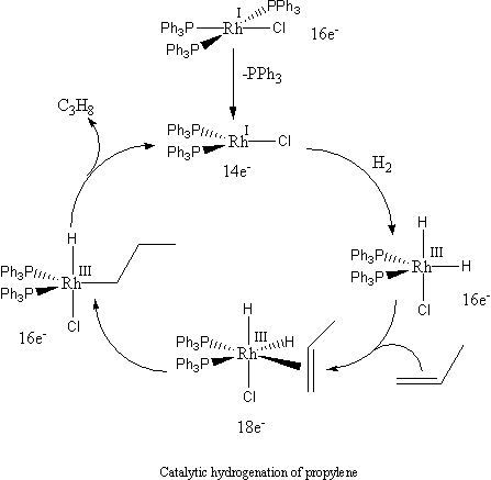 ChemDraw sketch of catalytic hydrogenation of propylene